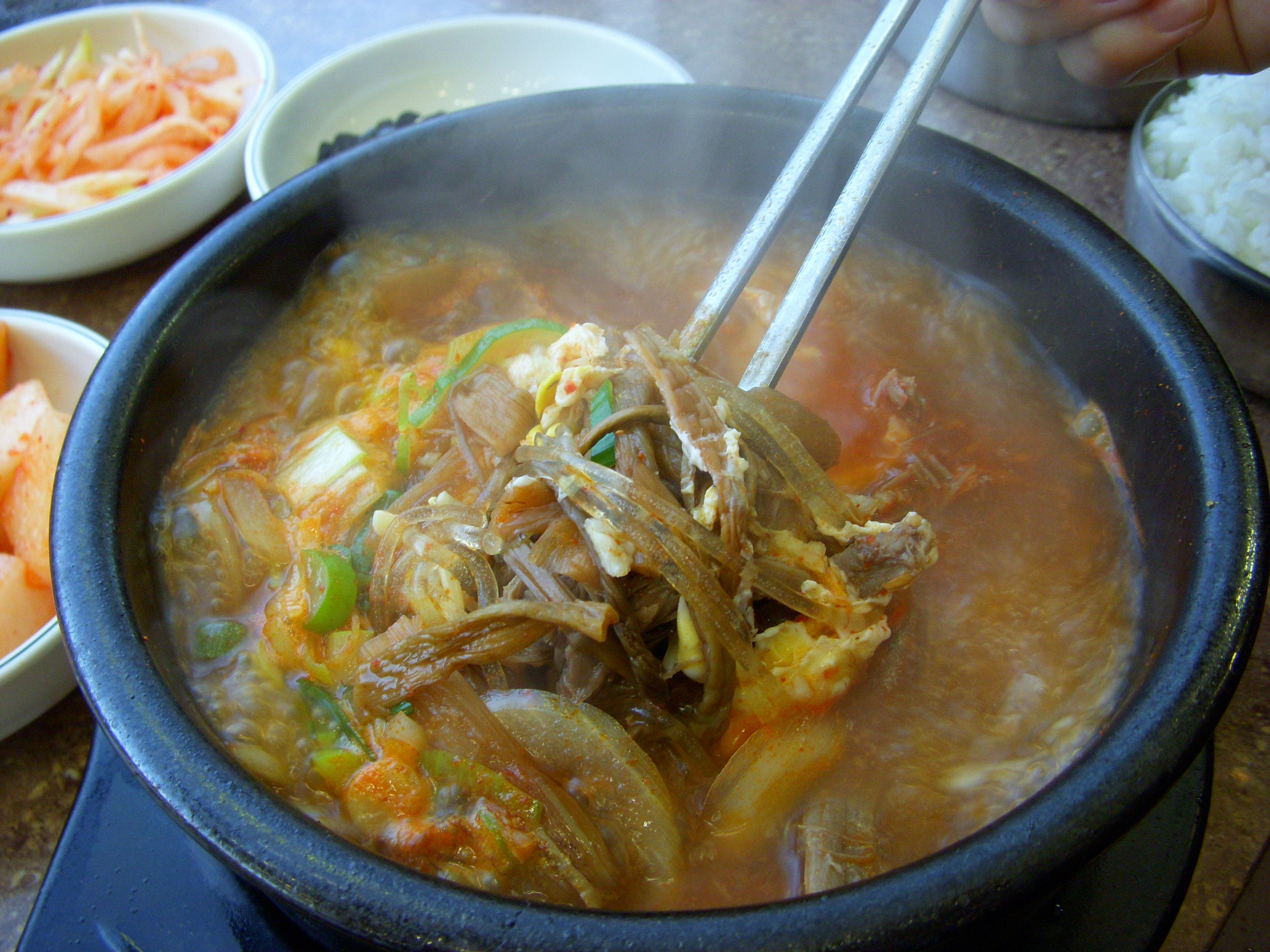 Yukgaejang (육개장), beef spicy soup in Korean cuisine